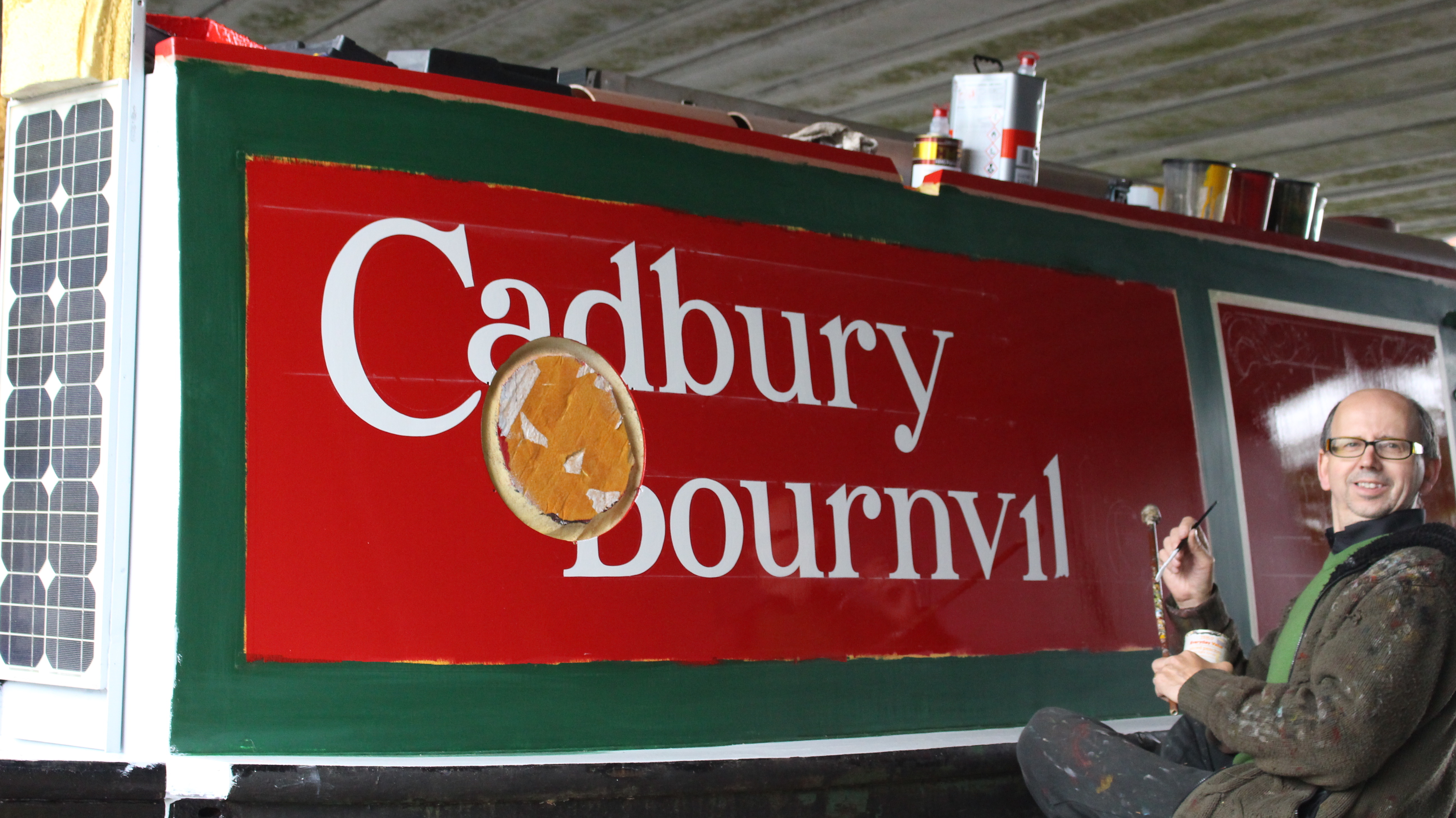 The signwriter, Steve Evans, looking at the camera with paintbrush in hand.